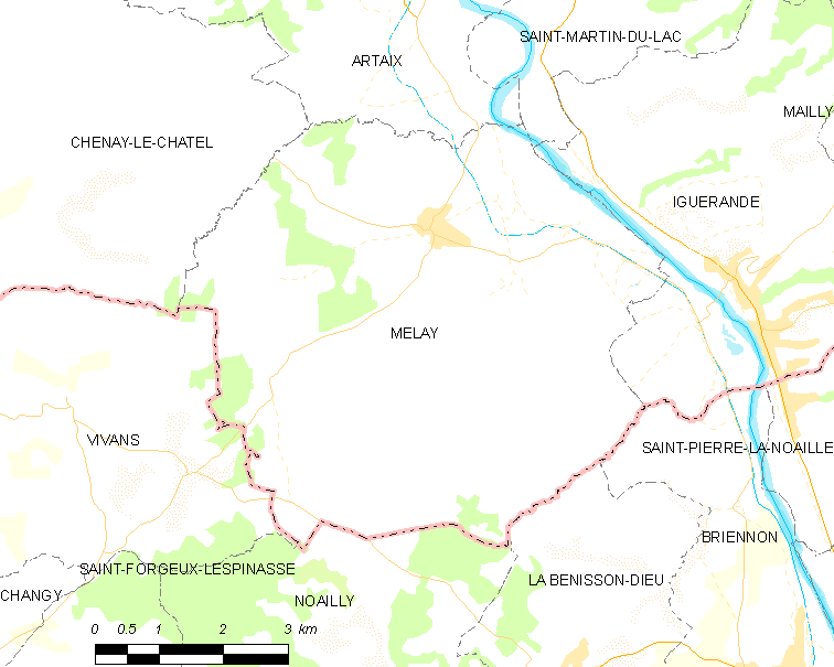 Map of French municipality